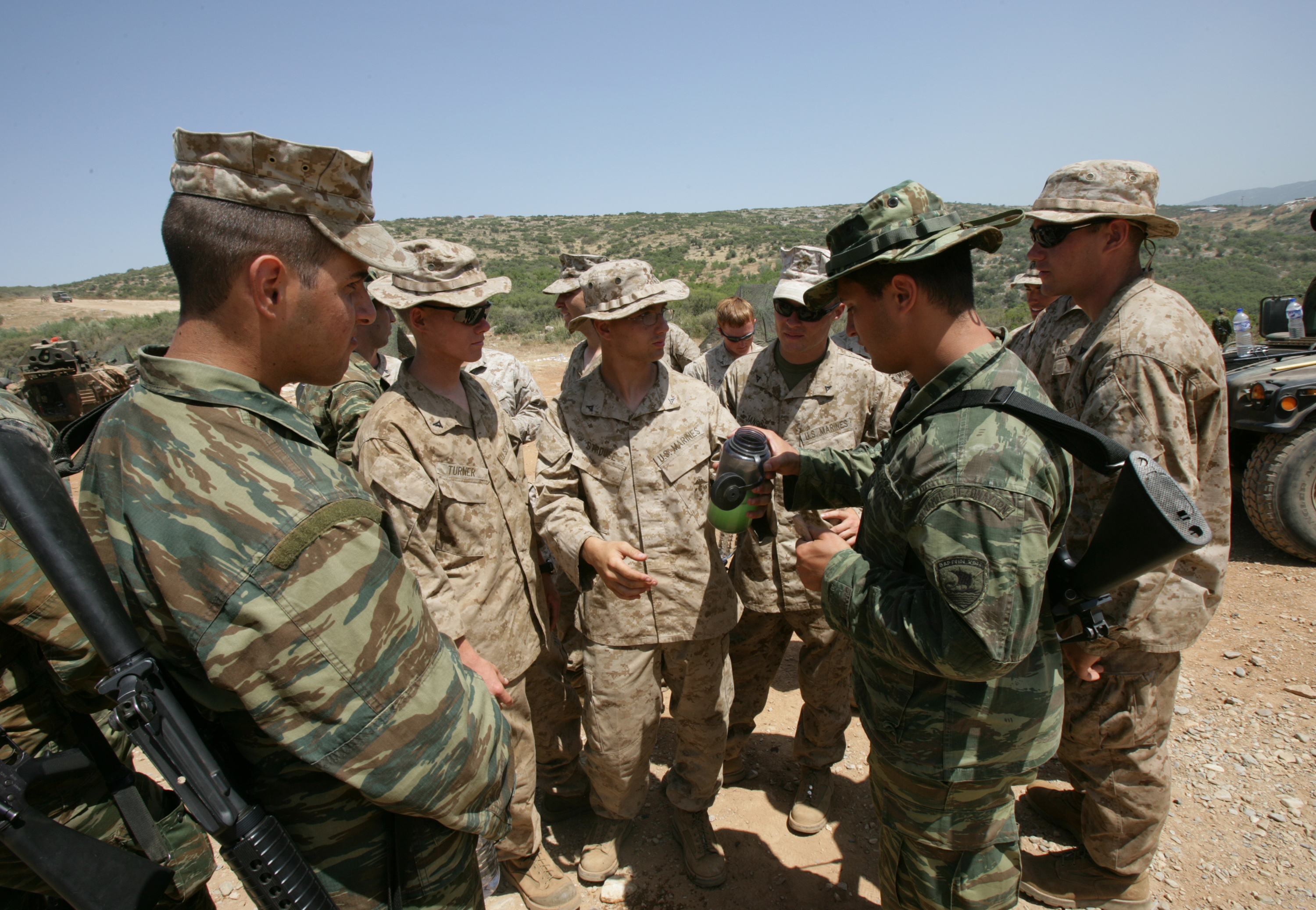 A Greek Marine from the 32nd Brigade of Marines tries the lime-flavored drink from a Meal Ready-to-Eat he received from U.S. Marines with Battalion Landing Team, 3rd Battalion, 2nd Marine Regiment, 22nd Marine Expeditionary Unit, at Melissatika training area outside Volos, Greece, June 11, 2009. Elements of the MEU went ashore in Greece for a 12-day training evolution. The 22nd MEU is embarked aboard the ships of the Bataan Amphibious Ready Group and is currently serving as the theater reserve force for U.S. European Command.